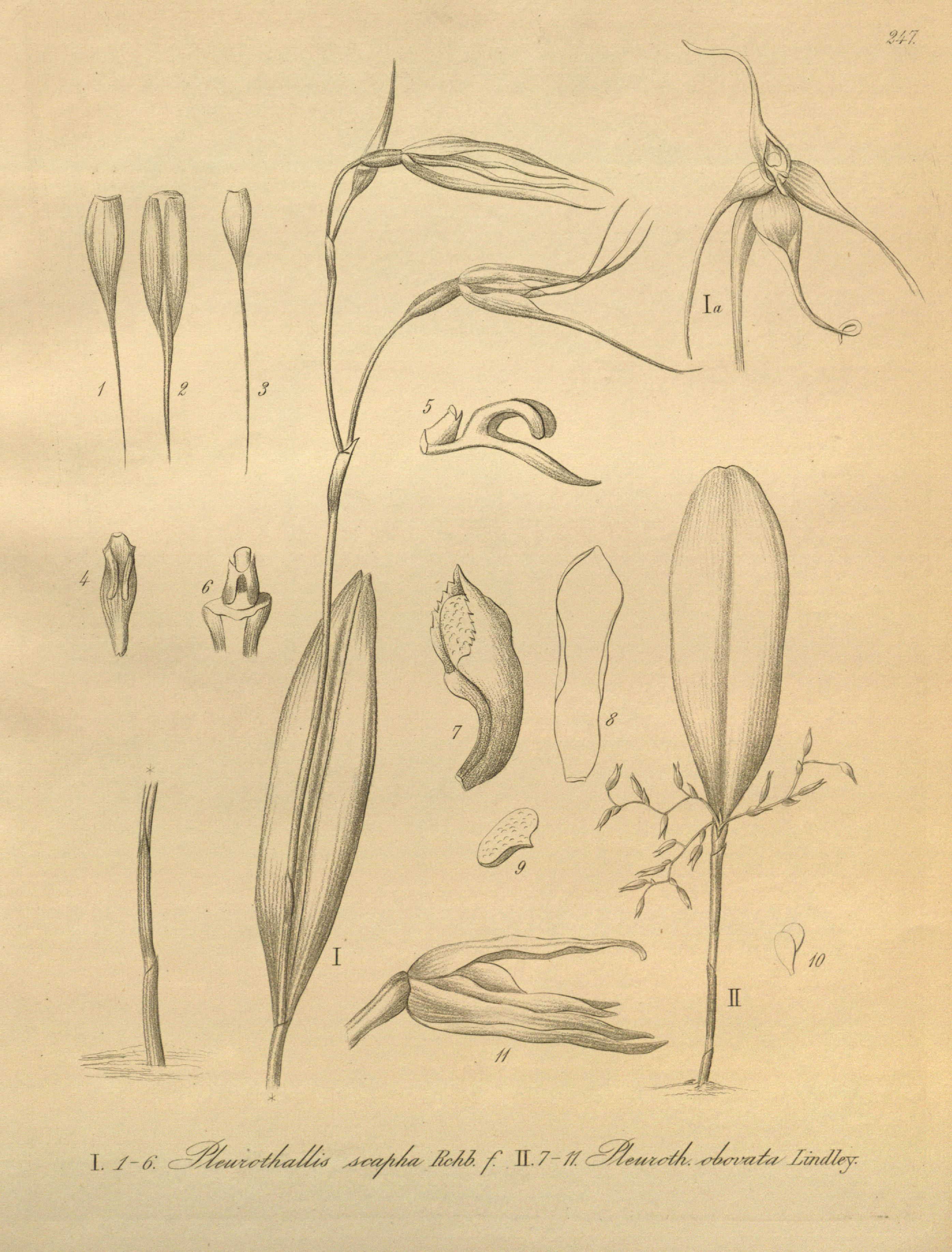 Illustration of I, 1-6 Pleurothallis sirene (as syn. Pleurothallis scapha) II, 7-11 Anathallis obovata (as syn. Pleurothallis obovata)